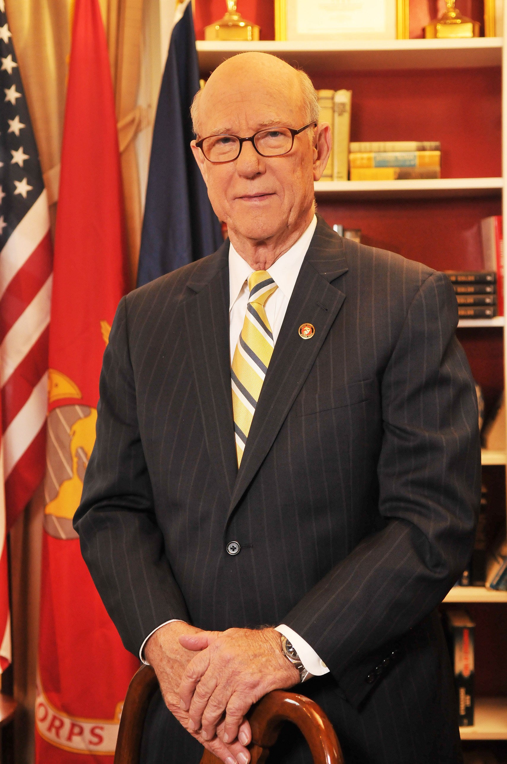 Senator Pat Roberts, 114th Congress